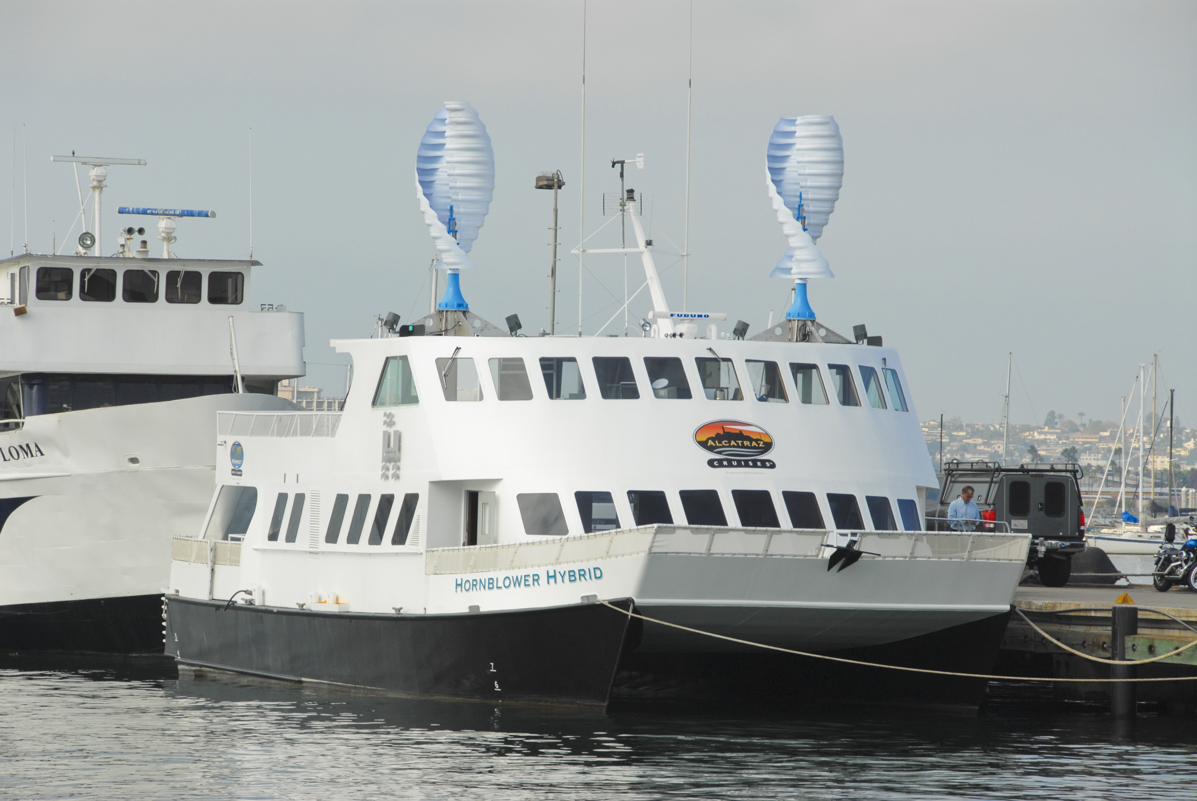 The Hornblower Hybrid ship at port